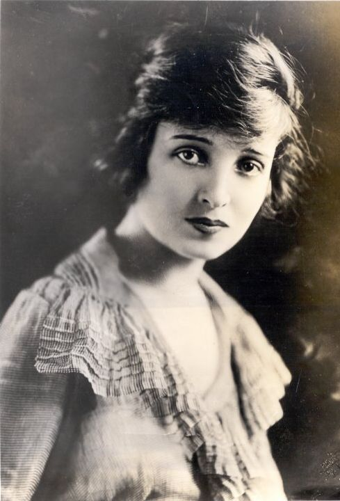 Publicity photo of Alice Joyce [1]